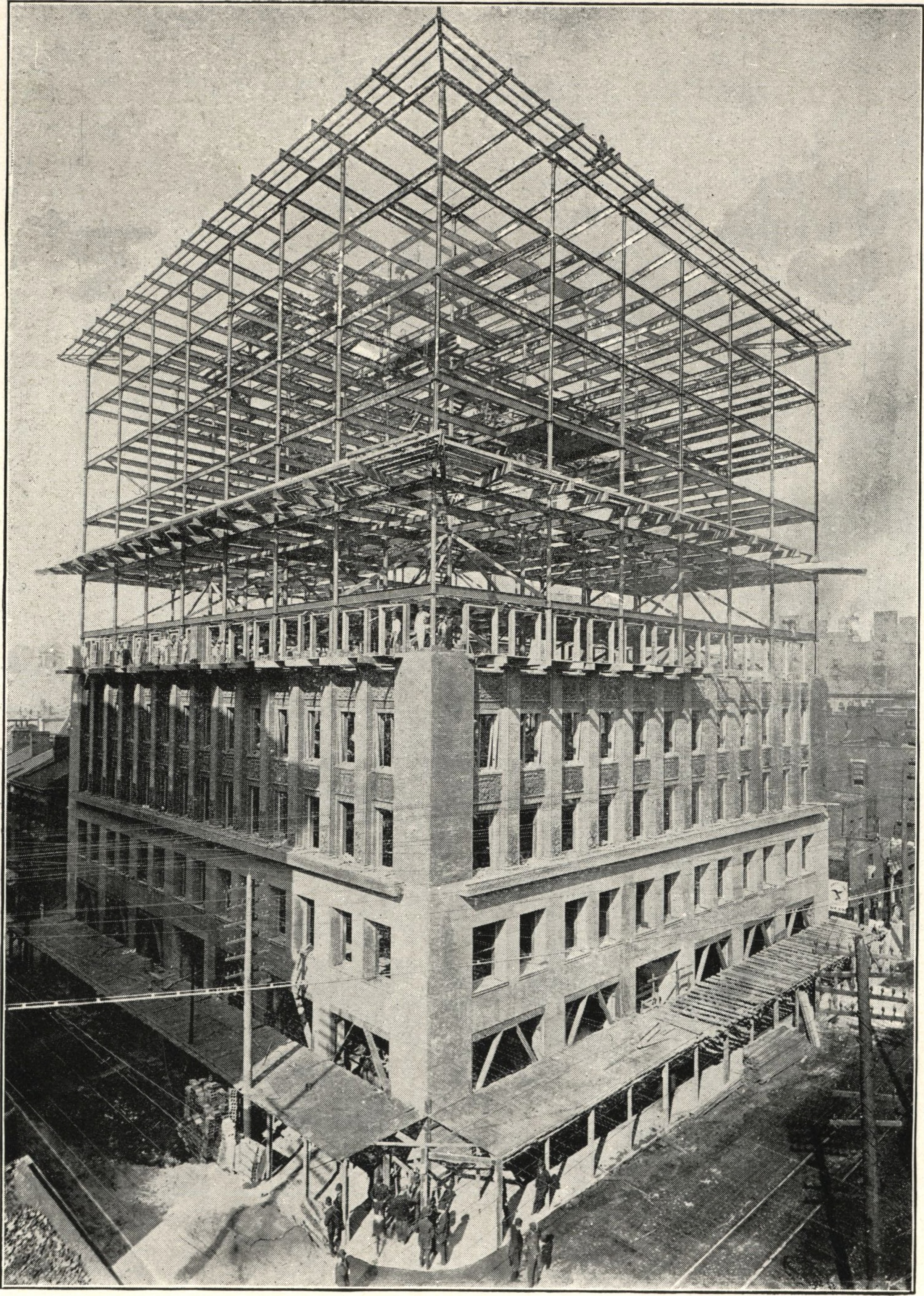 Title: Catalogue of useful information and tables relative to iron, sheet and other products manufactured by Milliken Brothers, arranged for the use of engineers, architects and builders Year: 1901 (1900s) Authors: Milliken Brothers Subjects: structural steel -- catalogs construction equipment -- catalogs Division 05 Division 41 steel column schedule steel beam schedule steel joist schedule structural steel framing structural steel for buildings steel joist framing metal fabrications metal stairs decorative metal cranes and hoists derricks Publisher: Milliken Brothers Text Appearing Before Image: STEEL WORK FURNISHED AND ERECTED BY MILLIKEN BROTHERS. 117 Wainwright Building^ St. Louis, Mo. Text Appearing After Image: PHCENIX COLUMNS SHOWING SKELETON CONSTRUCTION. 118 Roof of Private Dwelling, H. O. Havemeyer, New York City.